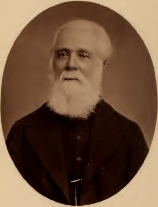 Benjamin Holt Rice